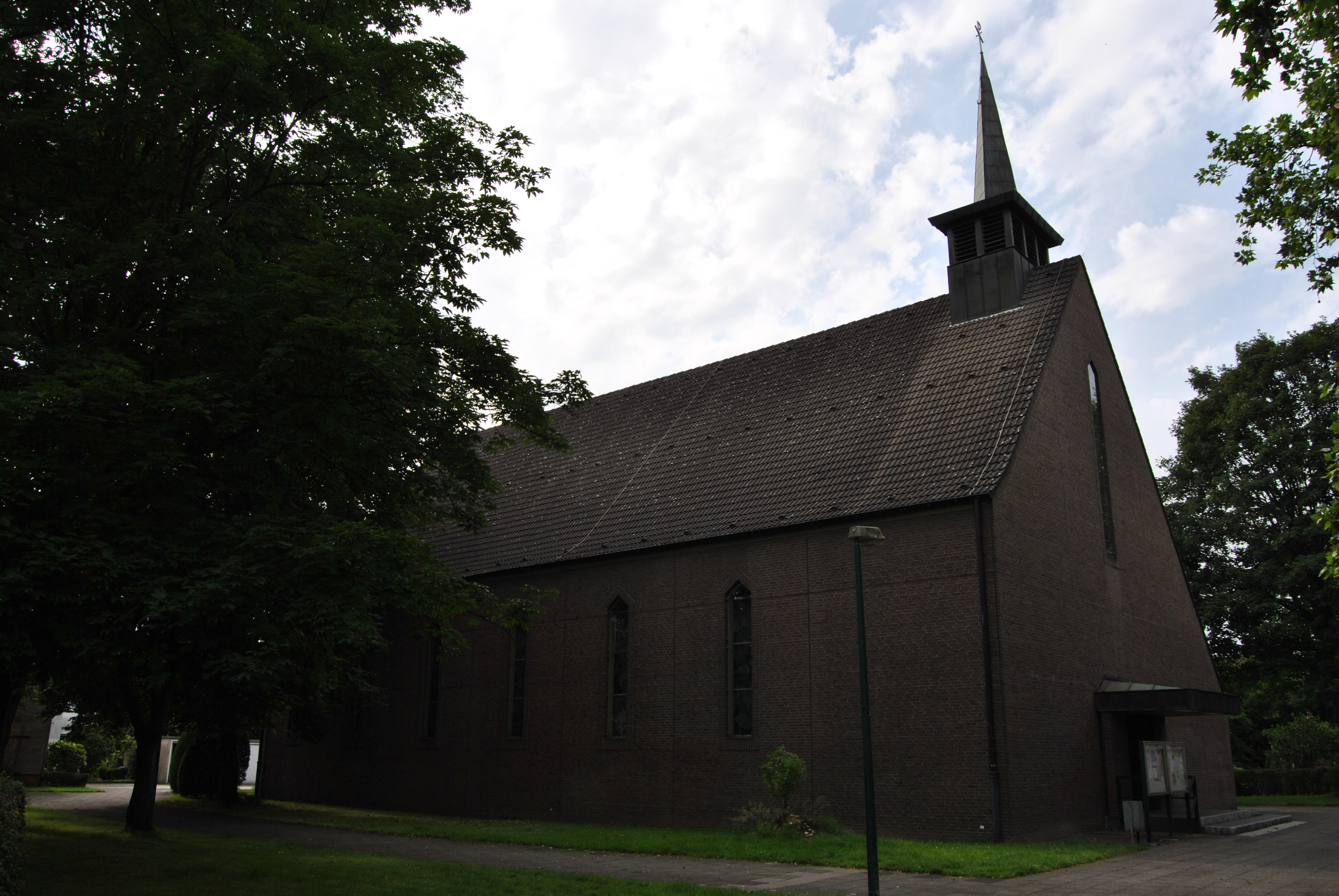 This photograph was taken with a Nikon D3000 This image shows a heritage building in Germany, located in the North Rhine-Westphalian city Duisburg. Katholische Kirche St. Raphael in der Siedlung Bissingheim - Denkmalliste Duisburg, Teil des Denkmalbereichs Nr. 2 - Koordinaten: 51.23'40.77"N, 6.48'39.38"E, Blickrichtung 28